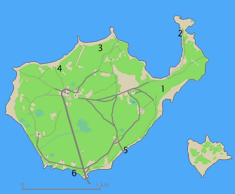 Aegna stones